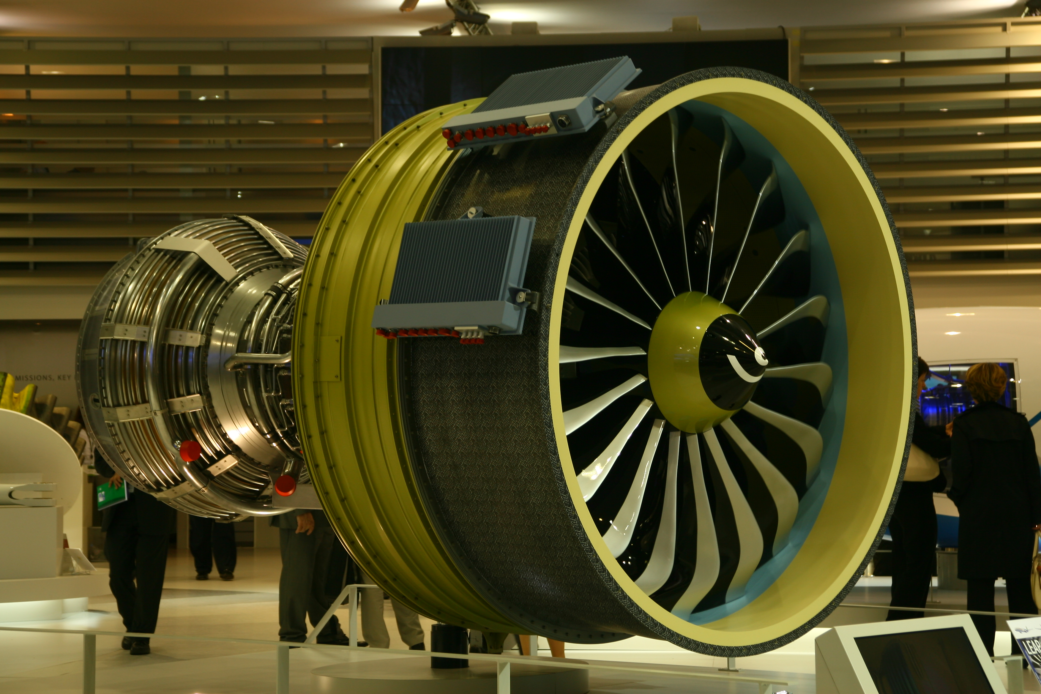 A full-size mockup of CFM LEAP-X.